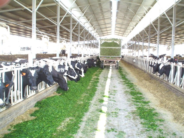 Cows beeing fed fresh fodder. Revivim, Israel.